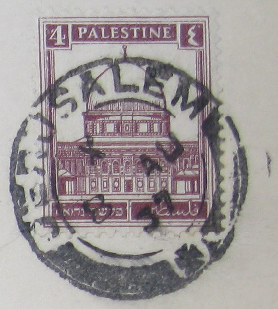 a stamp of the Mandat Period in Palestine, Dome of the Rock, 4 mill. Itamar Atzmon Collection